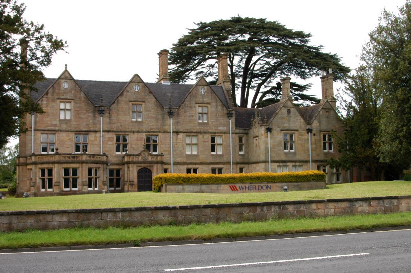 Duffield Hall, the former St Ronan's School, soon to be developed into a private house.